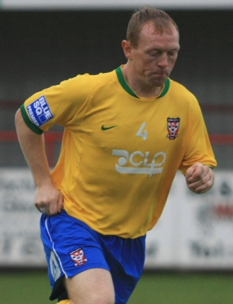 Stuart Elliott. Image cropped from original at flickr.